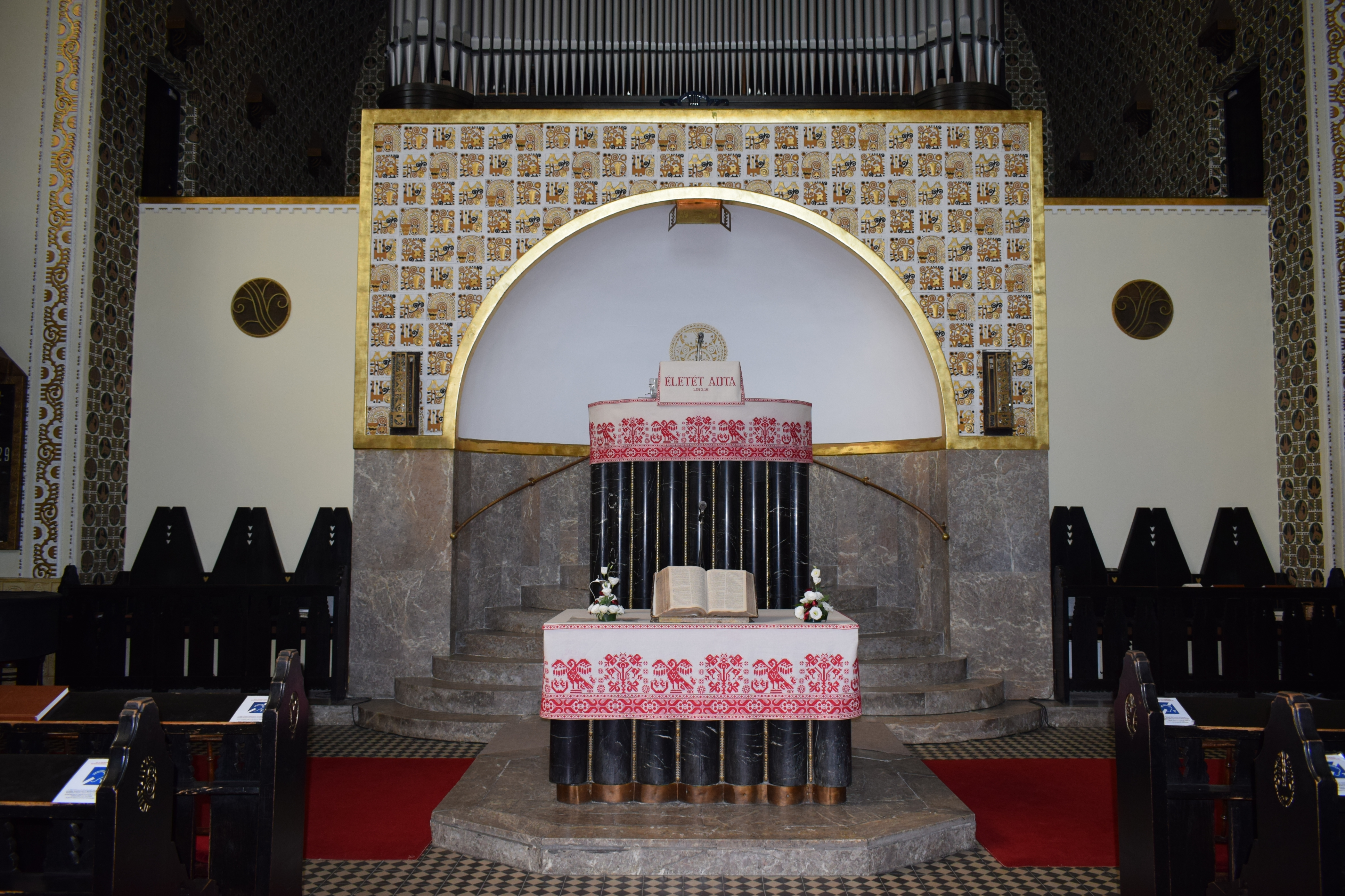 Art Deco pulpit and altar of the Fasori Calvinist Church in Budapest. Designed by Aladár Árkay in 1910-1912. Black and grey granite, copper lamps and fittings, Zsolnay maiolica tiles with folk art motives.